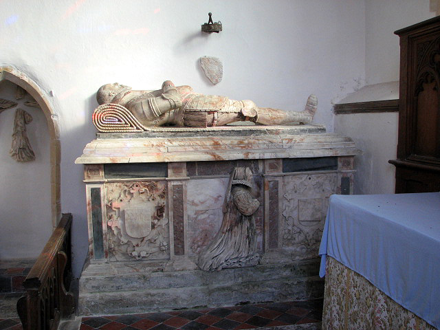 St Michael's church - monument